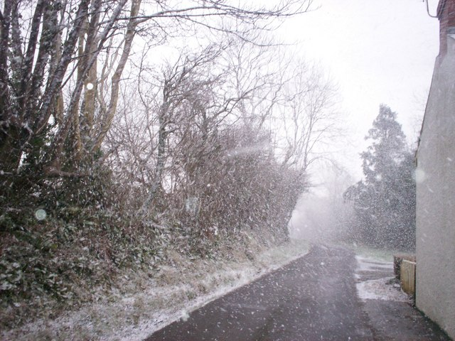 Snowy Trenewydd Lane, Llanteg Blizzard starting.